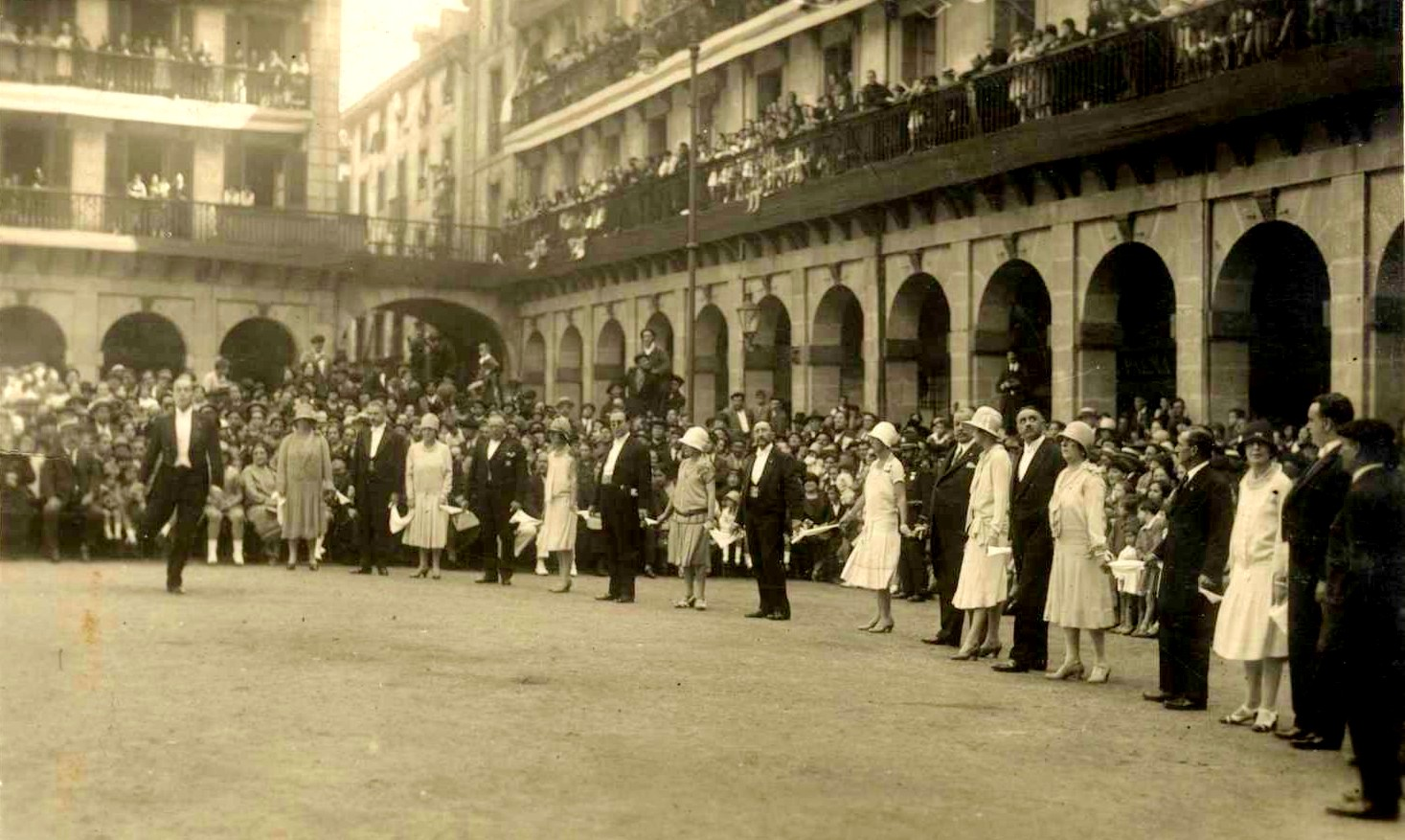 "Gizon dantza" in Donostia, Basque Country